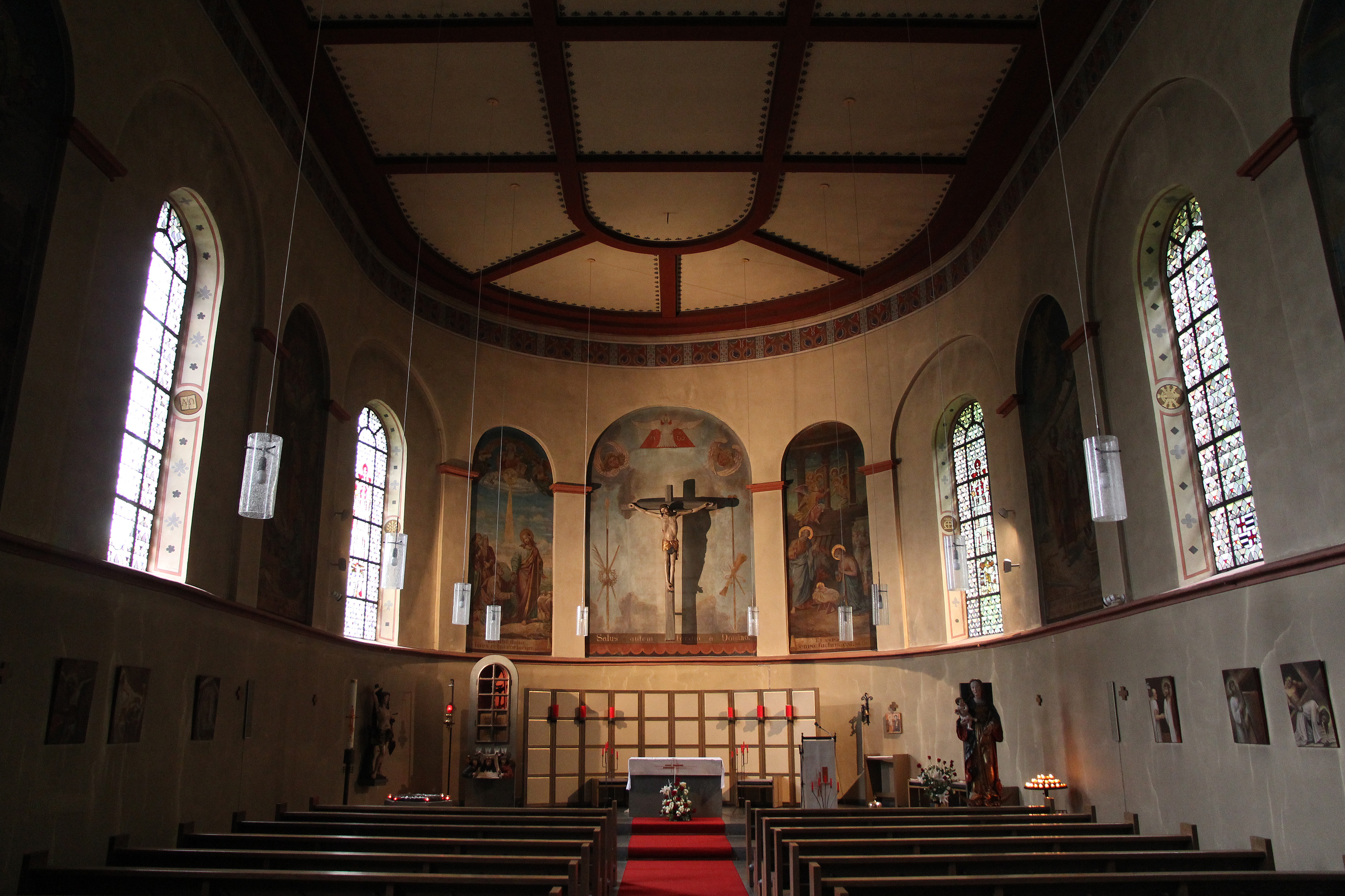 St. Menas church in Koblenz